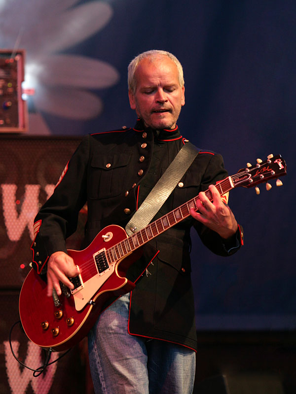 Reinhard Petereit, on stage with Silly, Chemnitz/Saxony 2007.